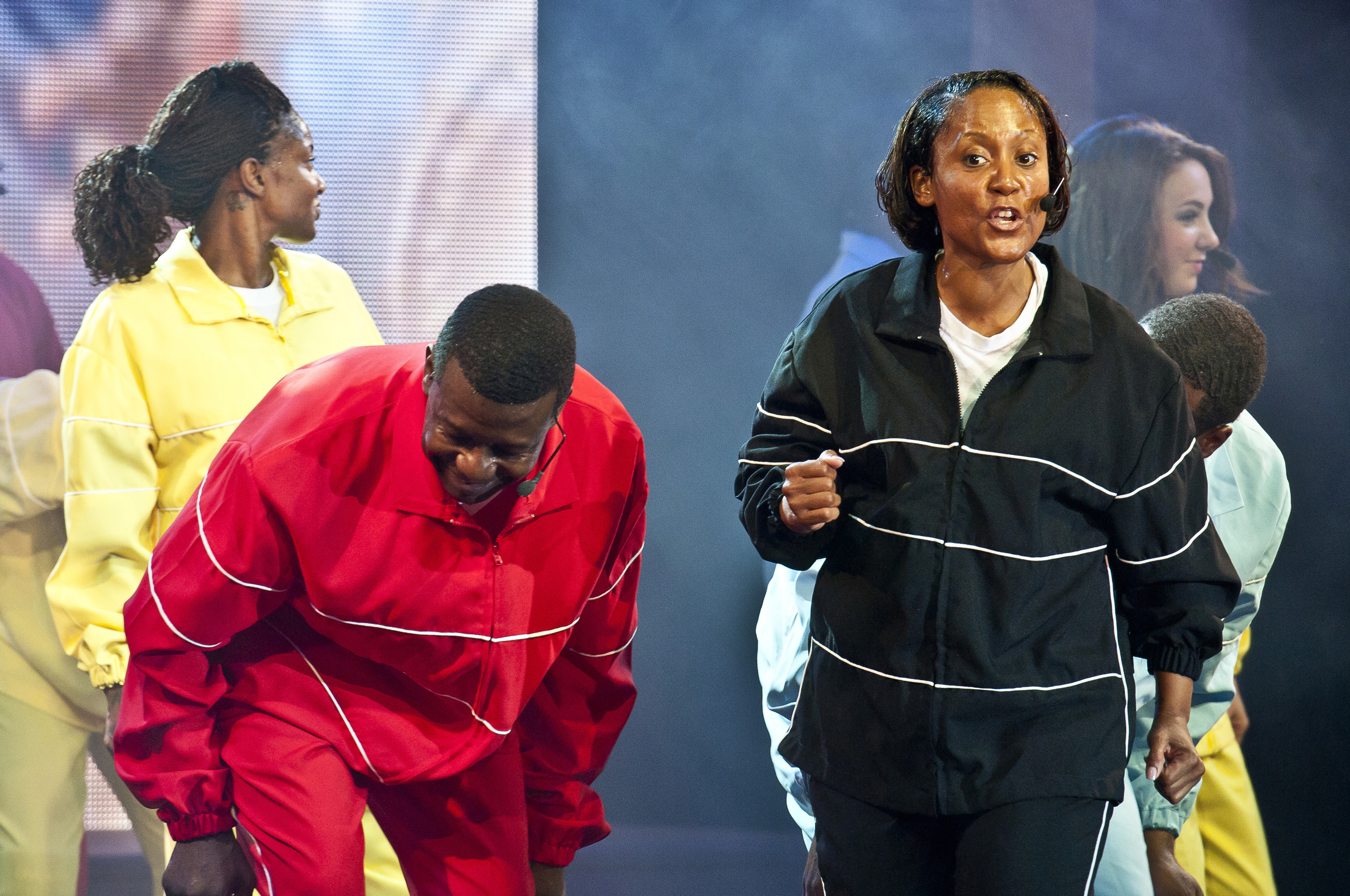 Spc. Tiffani Lindstrom (foreground) performs for soldiers and their families here during a rendition of Lady Gaga’s “Edge of Glory,” Aug. 10, that was part of the U.S. Army Soldier Show’s 2012 song lineup. Lindstrom auditioned for the show last year, just four years past the day she nearly lost her life during a deployment to Egypt after the brakes on her fuel truck went out.